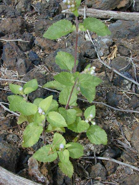 Ageratum conyzoides (Tropical Whiteweed)